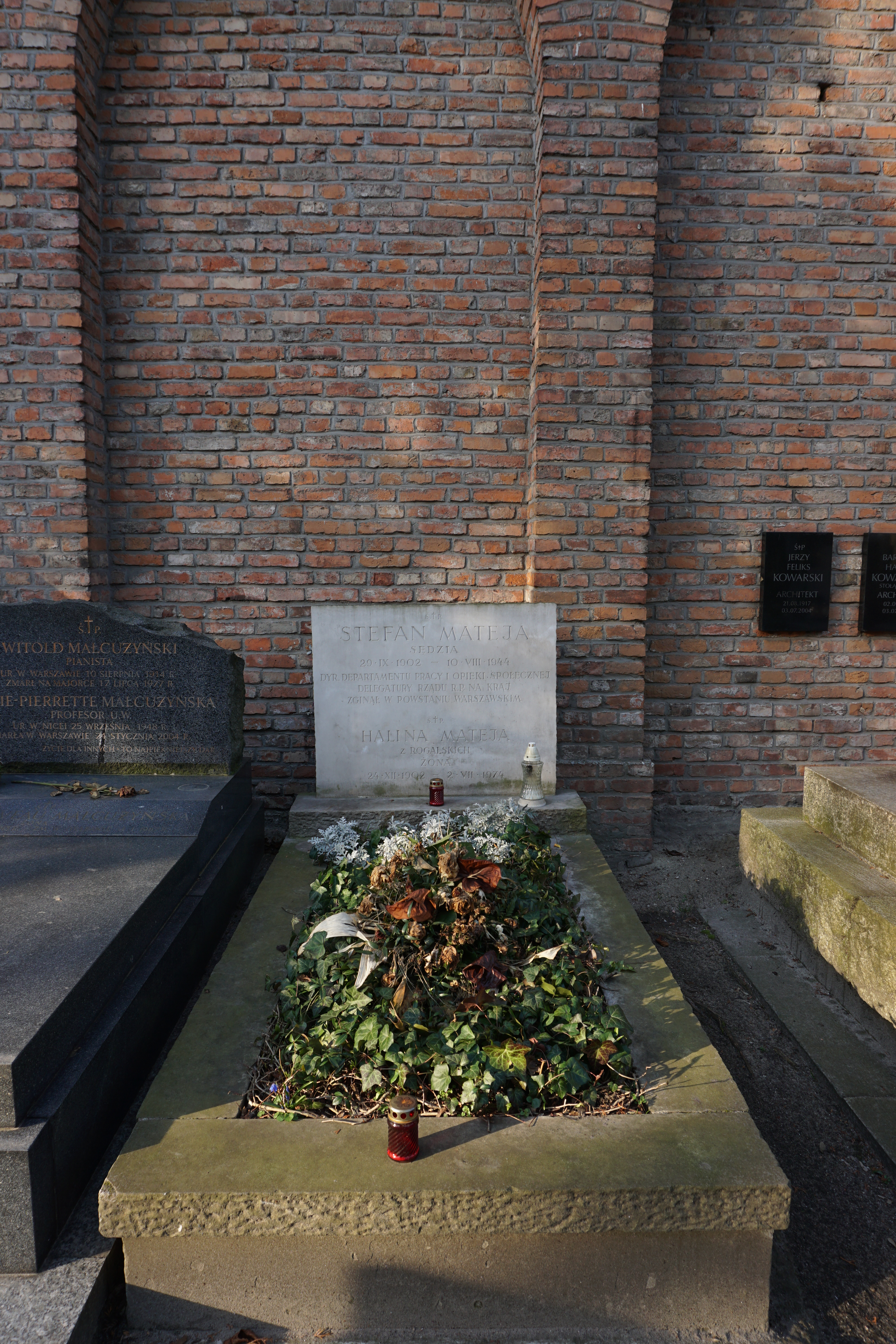 The grave of Stefan Matei at the Powązki Cemetery (Avenue of Deserved, grave 32)